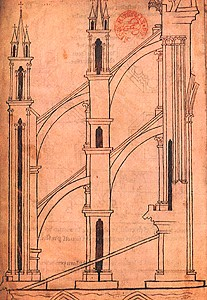 Villard de Honnecourt, drawing of a buttress at Reims, in his album of drawings, ca 1230 - 35. Bibliotheque Nationale Documentary photo of 13th century drawing in the national collection: Bibliotheque National